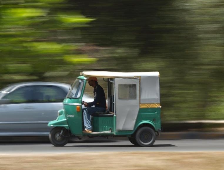 rickshaw on the Lahore 'nehr' or canal - panning